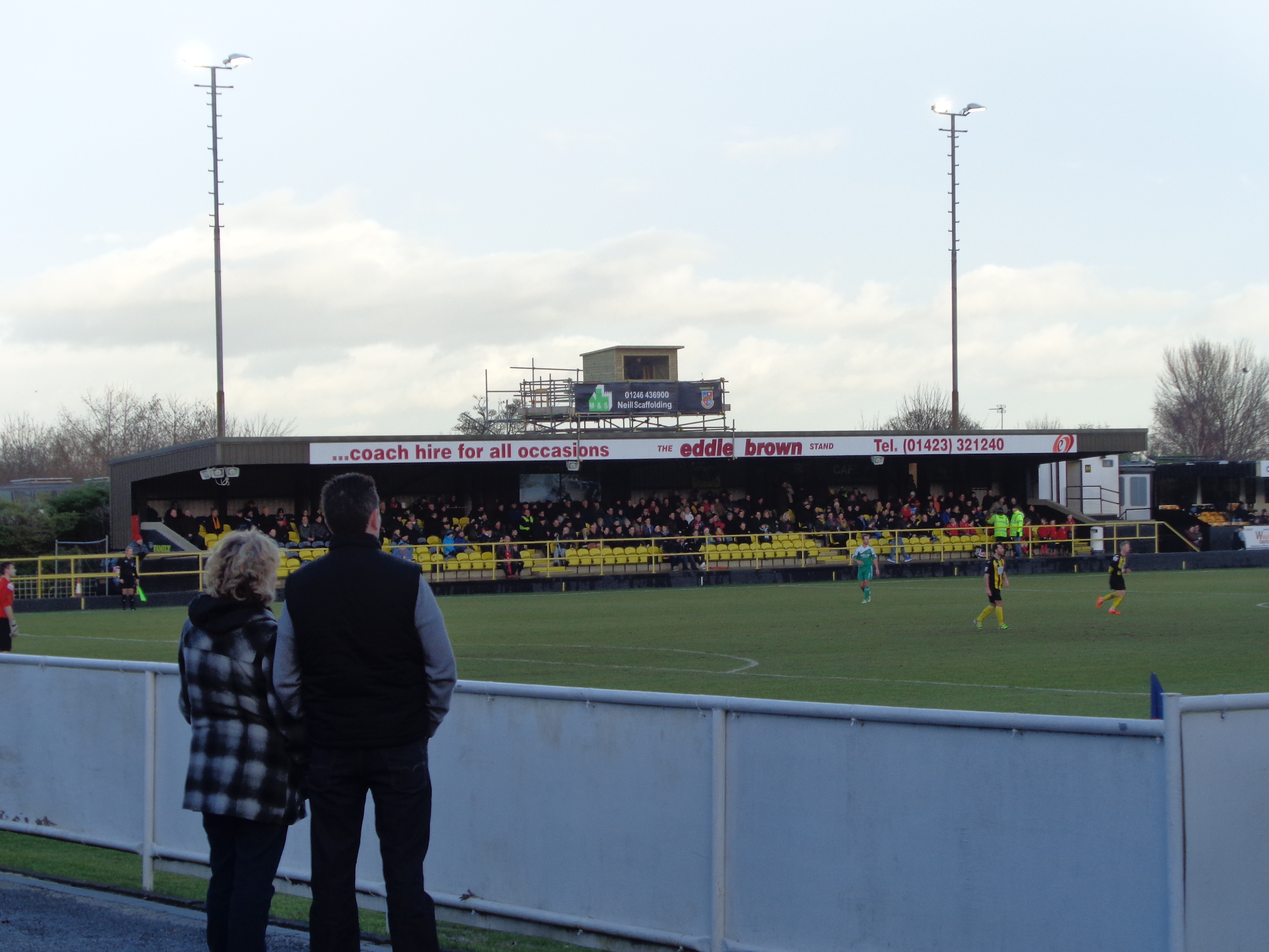 Wetherby Road football ground, home to Harrogate Town since 1920. This stadium is the largest in Harrogate, North Yorkshire. Taken during a match against Bradford Park Avenue which was drawn 1-1 on the afternoon of Saturday the 25th of January 2014.